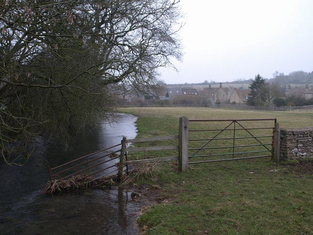 River Churn near Baunton The village of Baunton is in the background. Looking upstream.